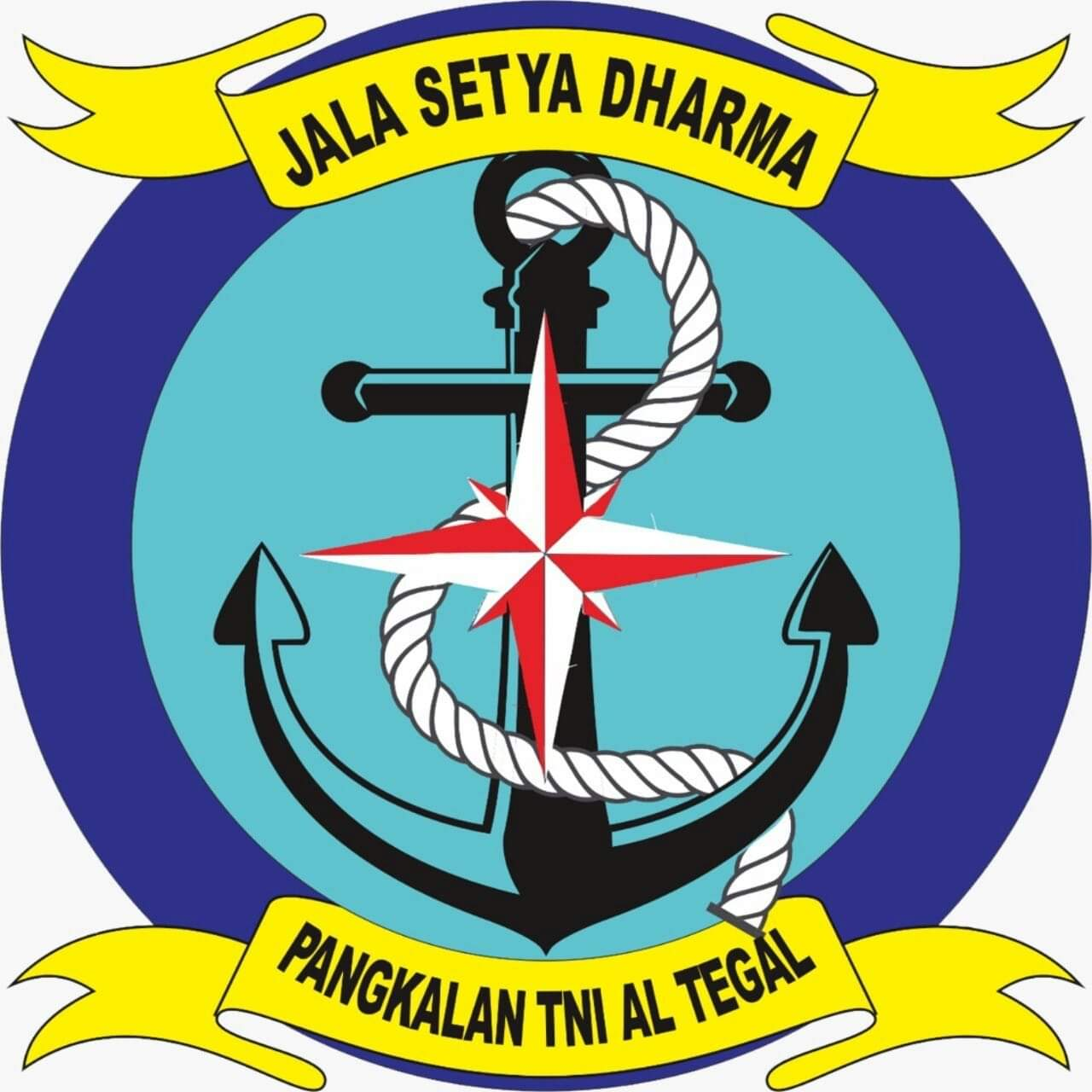 Pangkalan TNI AL TegalDate 28 April 2019Source Own workAuthor Arif putra